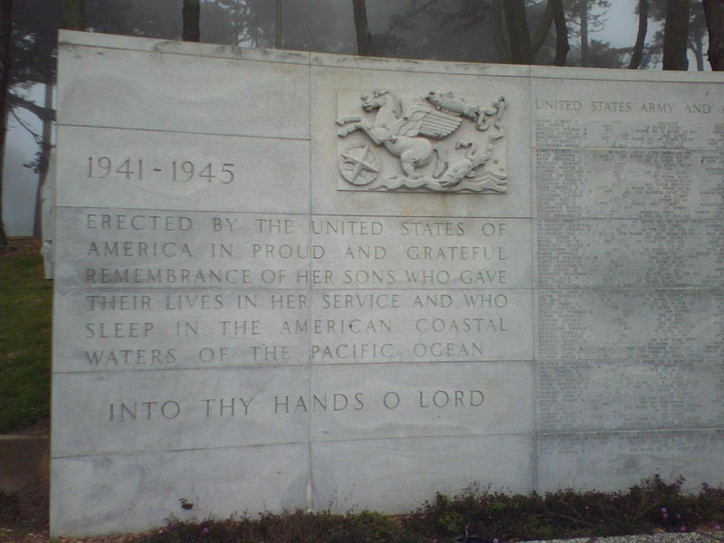 West Coast Memorial, San Francisco, USA